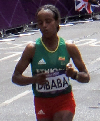 Mare Dibaba (Ethiopia) - London 2012 Women's Marathon